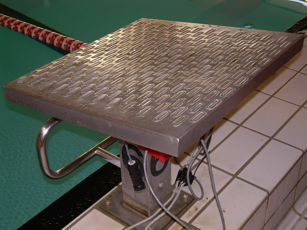 From competitive swimming pool